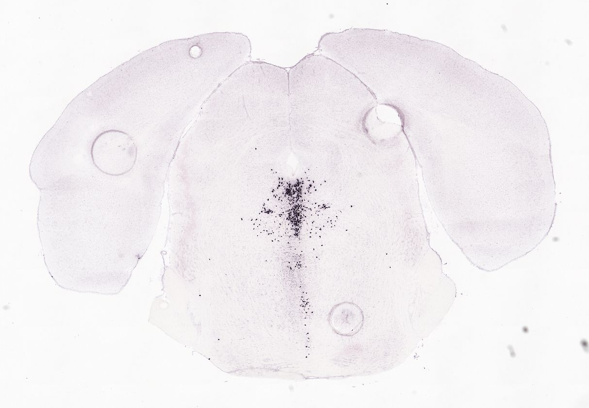 ISH image of Slc6a4 gene expression in the dorsal raphe of P56 day mouse.